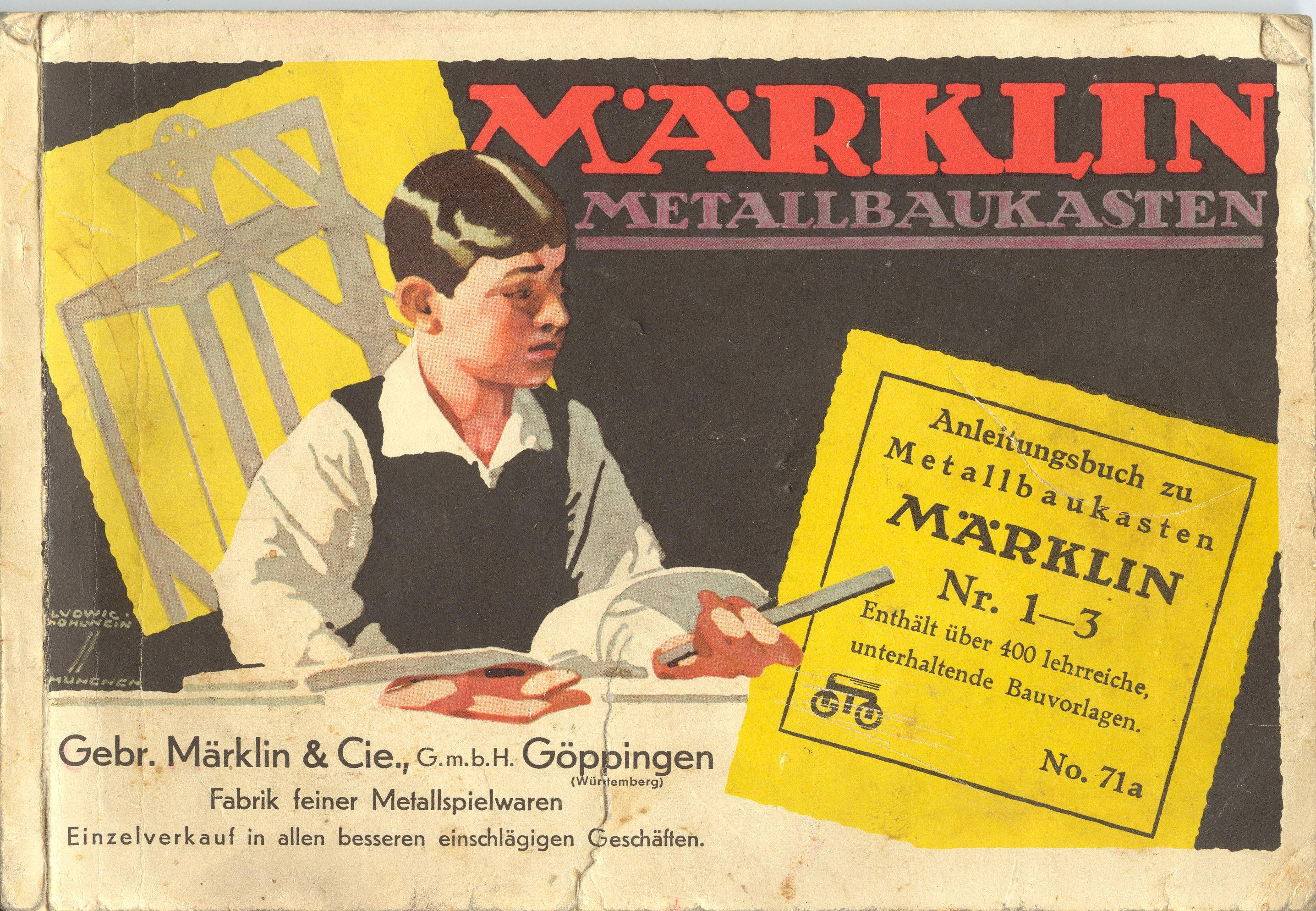 Cover of an instruction booklet Märklin construction toy ca. 1930